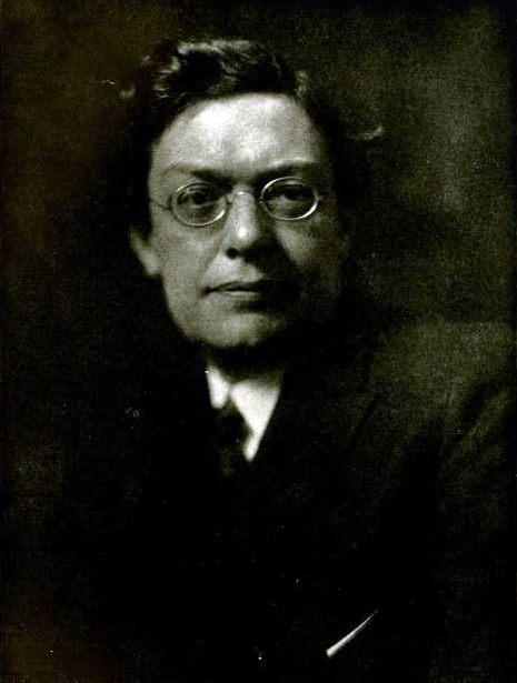 Charles R. Knight (1874–1953) Alternative namesCharles R. Knight, Chas. R. KnightDescriptionAmerican artistDate of birth/death21 October 187415 April 1953Location of birth/deathBrooklynManhattanAuthority control : Q725877 VIAF: 28416797 ISNI: 0000 0000 8211 6699 ULAN: 500052141 LCCN: n82073093 GND: 142166553 WorldCat